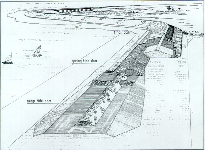 Artist impression showing the stages of construction of the Feni Dam in Bangladesh, constructed in the period 1983-1985